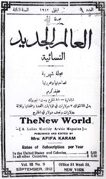 The New World: A Ladies Monthly Arabic Magazine, published and edited by Afifa Karam